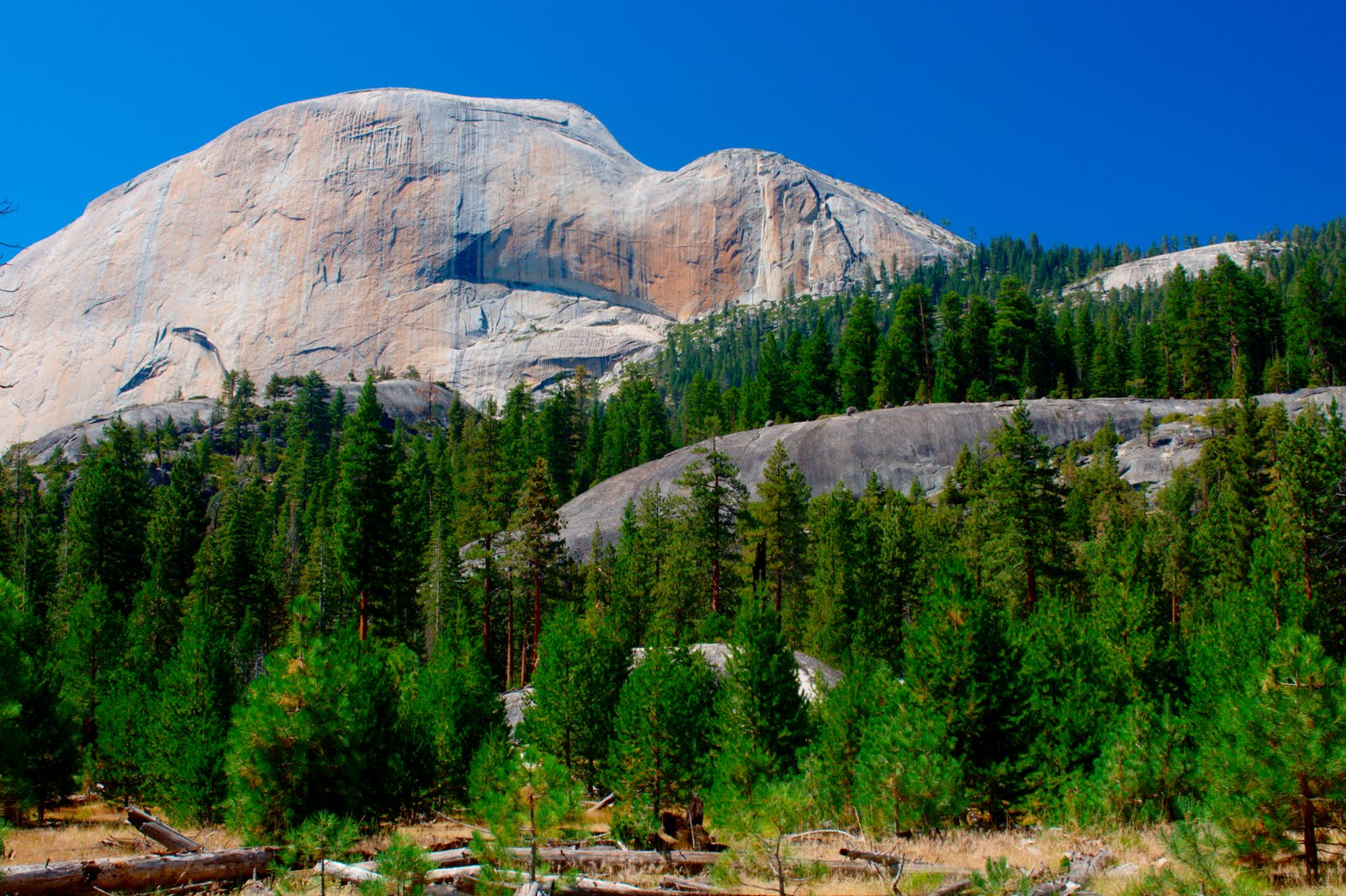 Hal Dome, view from the south east in Little Yosemite Valley.